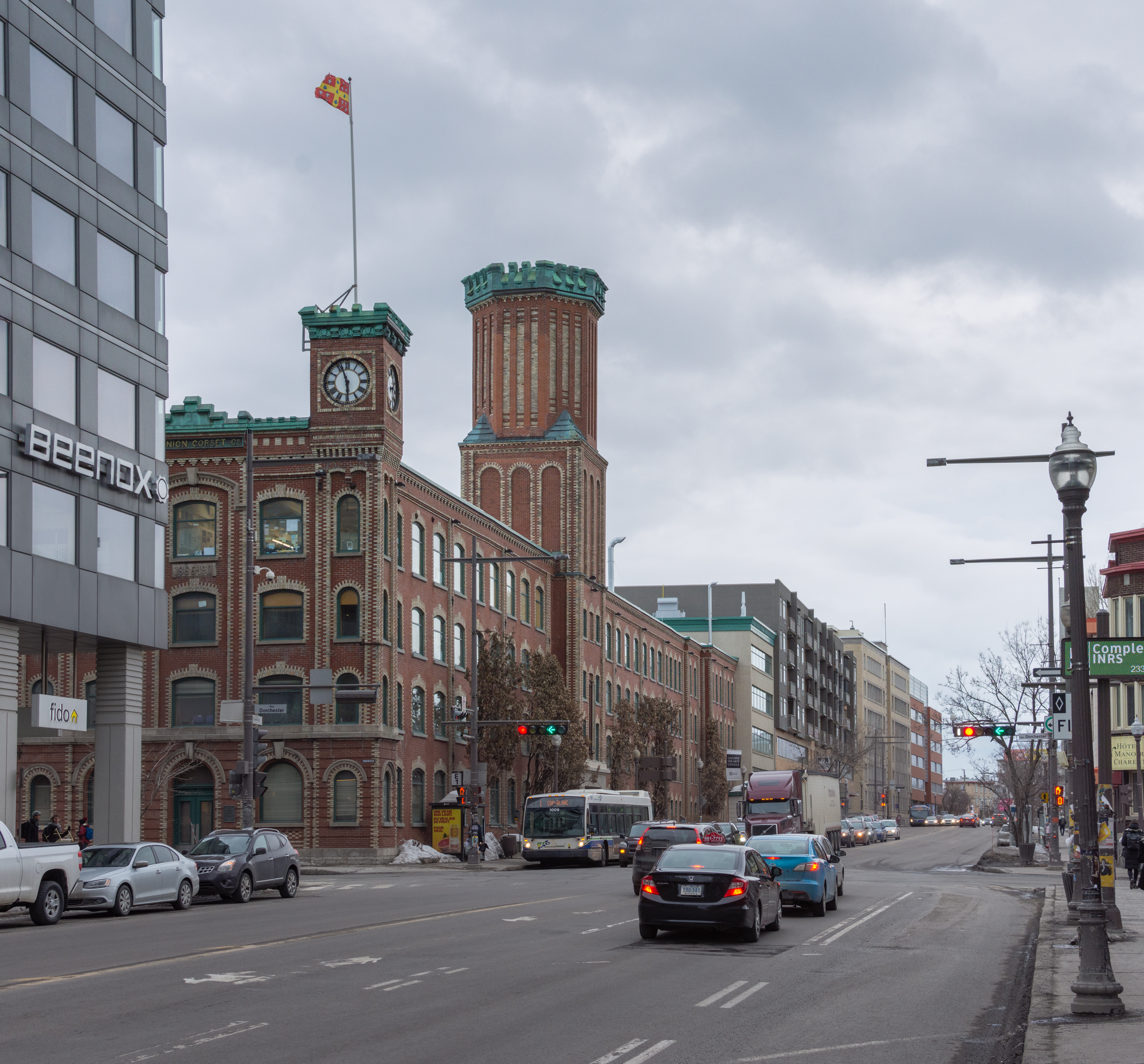 Québec city, Québec State, Canadá